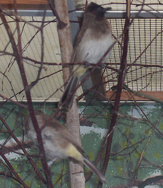 Species Pycnonotus barbatus Pycnonotus xanthopygos Family Pycnonotidae